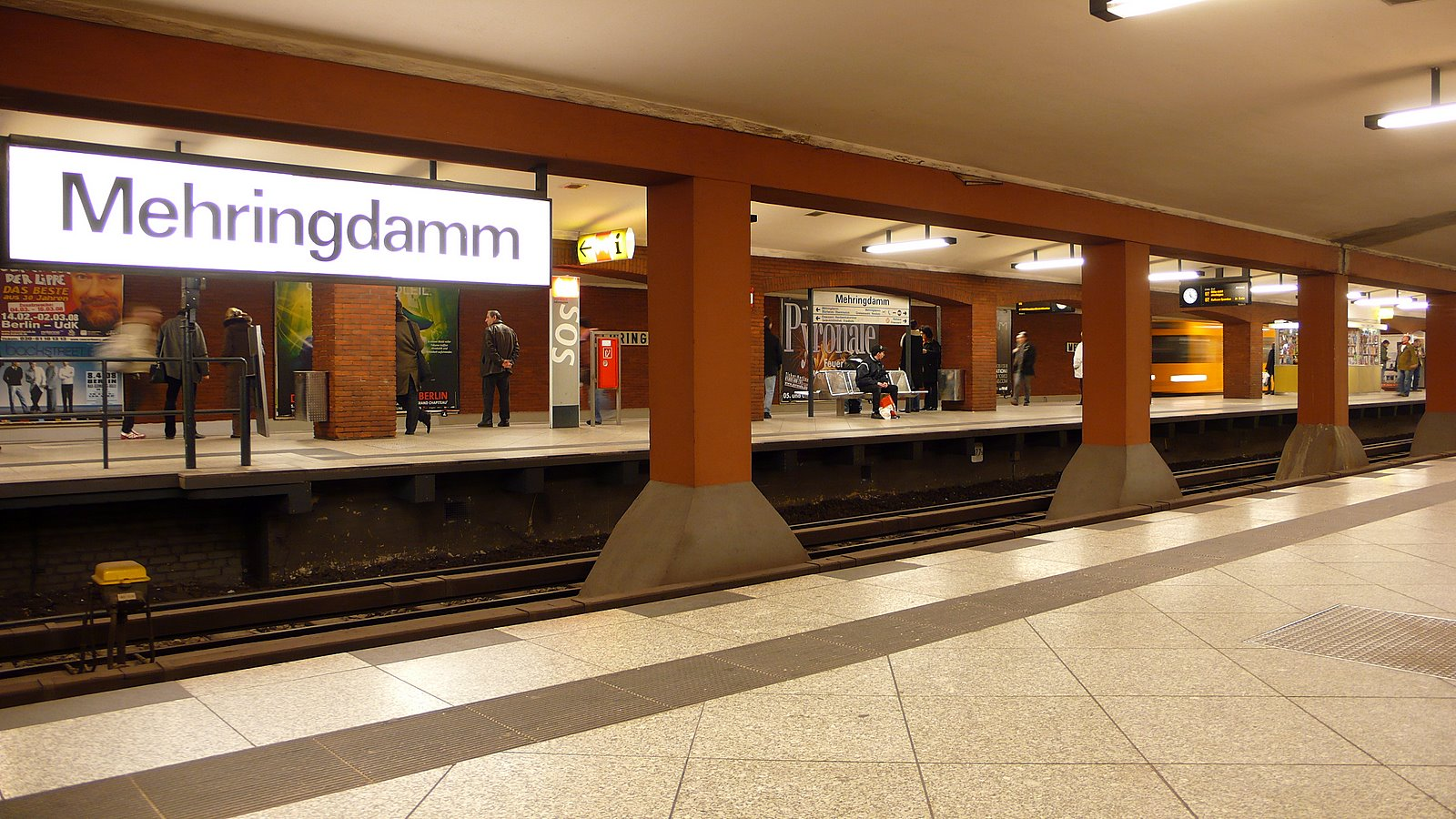 Mehringdamm subway